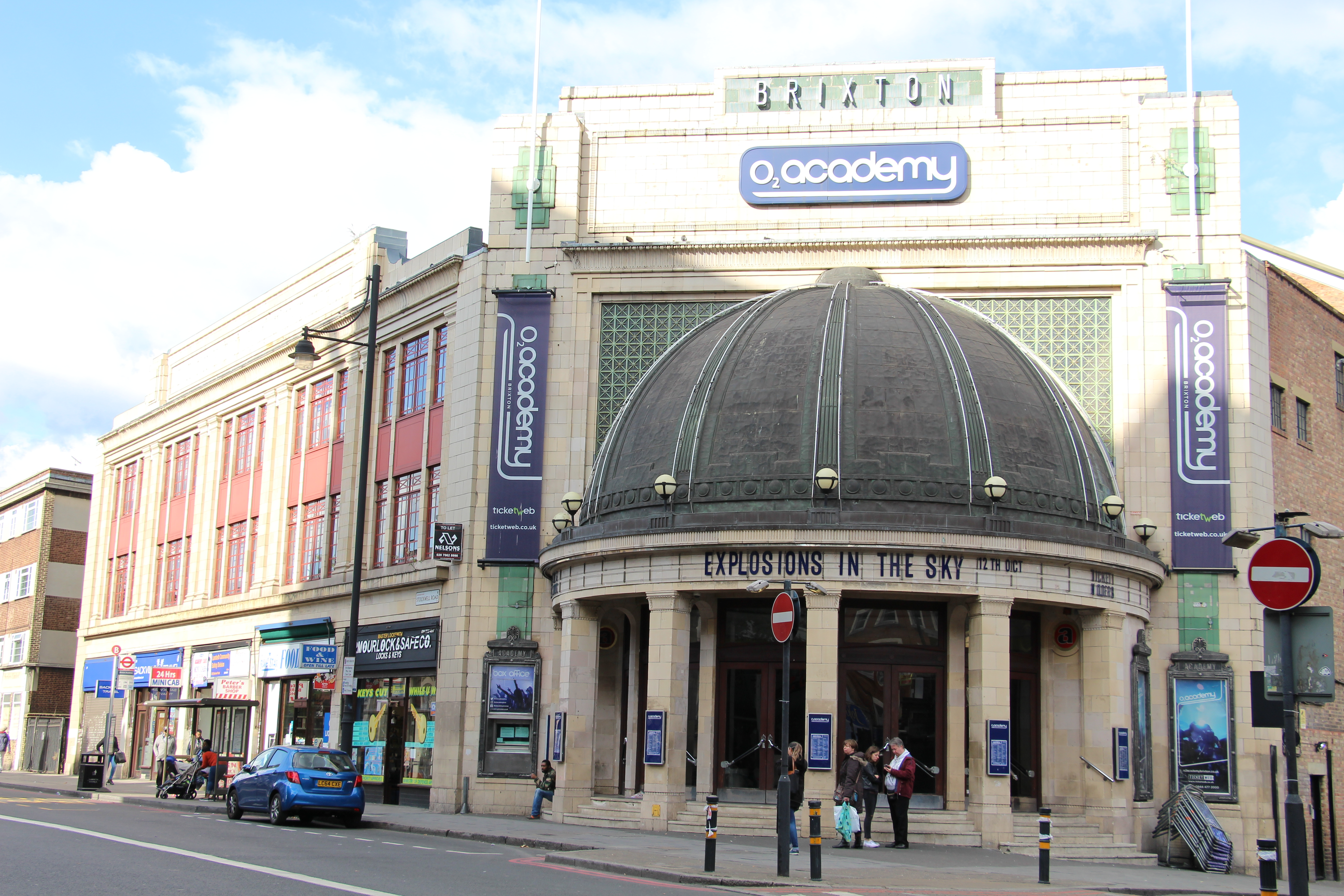 Stockwell Road The Brixton Academy, officially called O2 Academy, Brixton, is one of London's leading music venues, nightclubs and theatres. The venue started life as a cinema and theatre called the Astoria. Arch. Thomas Somerford and E A Stone 1929. In 1981, The Astoria, remodelled by Sean Treacy, was re-opened as a rock venue and is currently hosting a range of live acts and club nights.